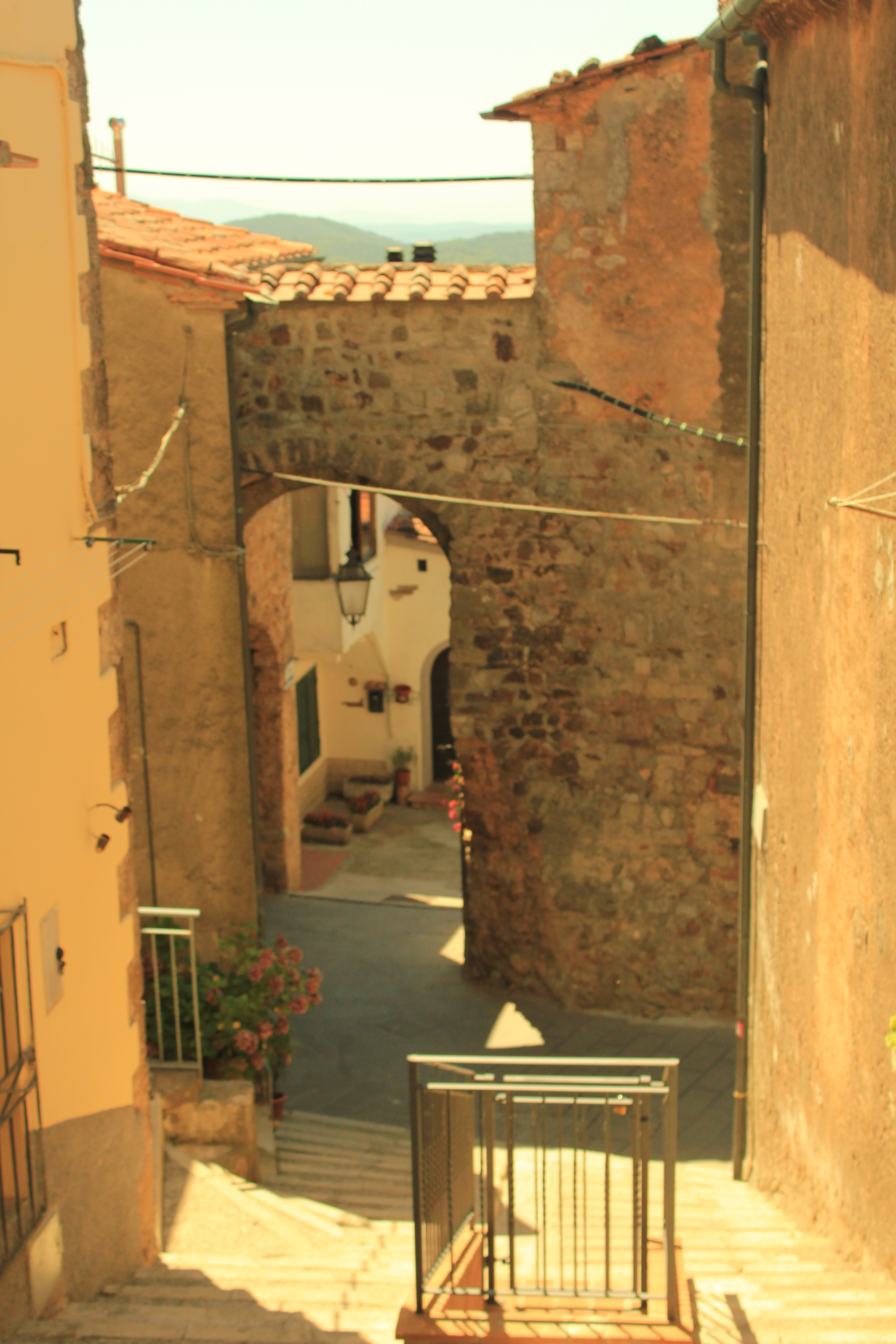 Walls of Boccheggiano.